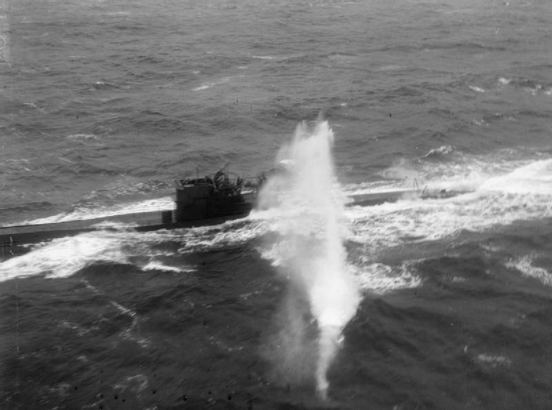 Fleet Air Arm Attack a U-boat, during a Convoy To Russia, 3 April 1944 A picture taken from an Avenger aircraft from 846 Naval Air Squadron flown off HMS Tracker of an attack on U-Boat 288 during Convoy JW 58. Machine gun fire from the attacking aircraft is seen straddling the U-boat near the conning tower.